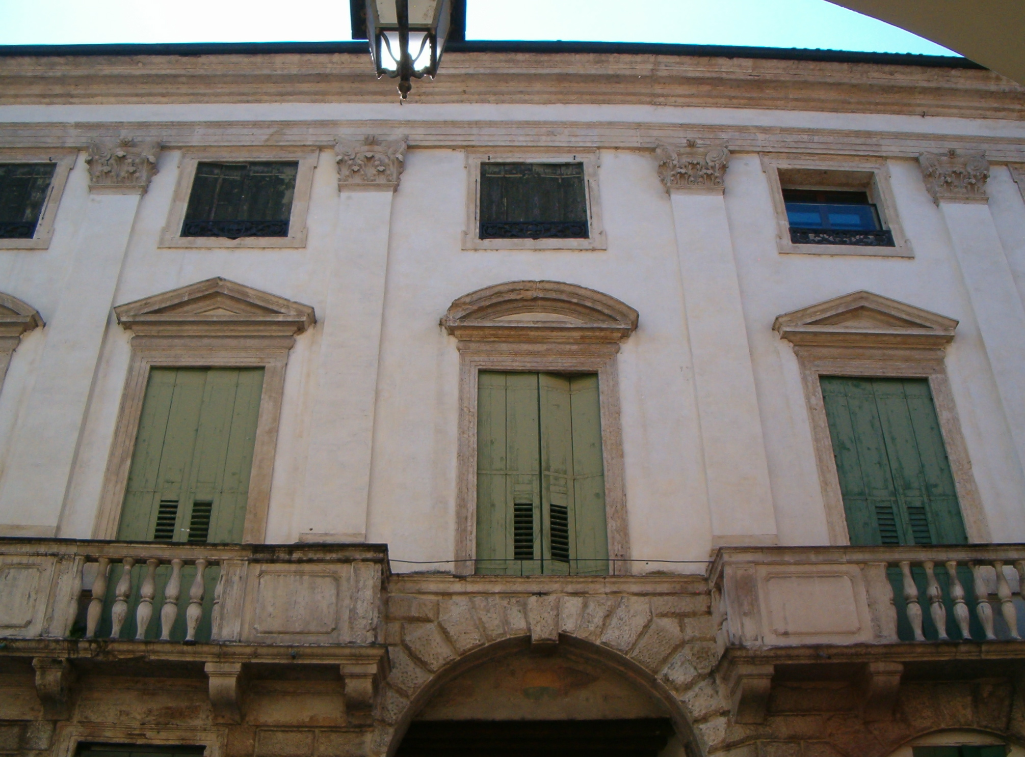 Palazzo Poiana in Corso Palladio in Vicenza, attributed to Andrea Palladio.